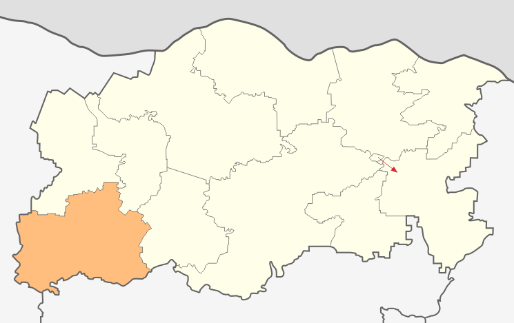 Map of Cherven bryag municipality, Pleven Province